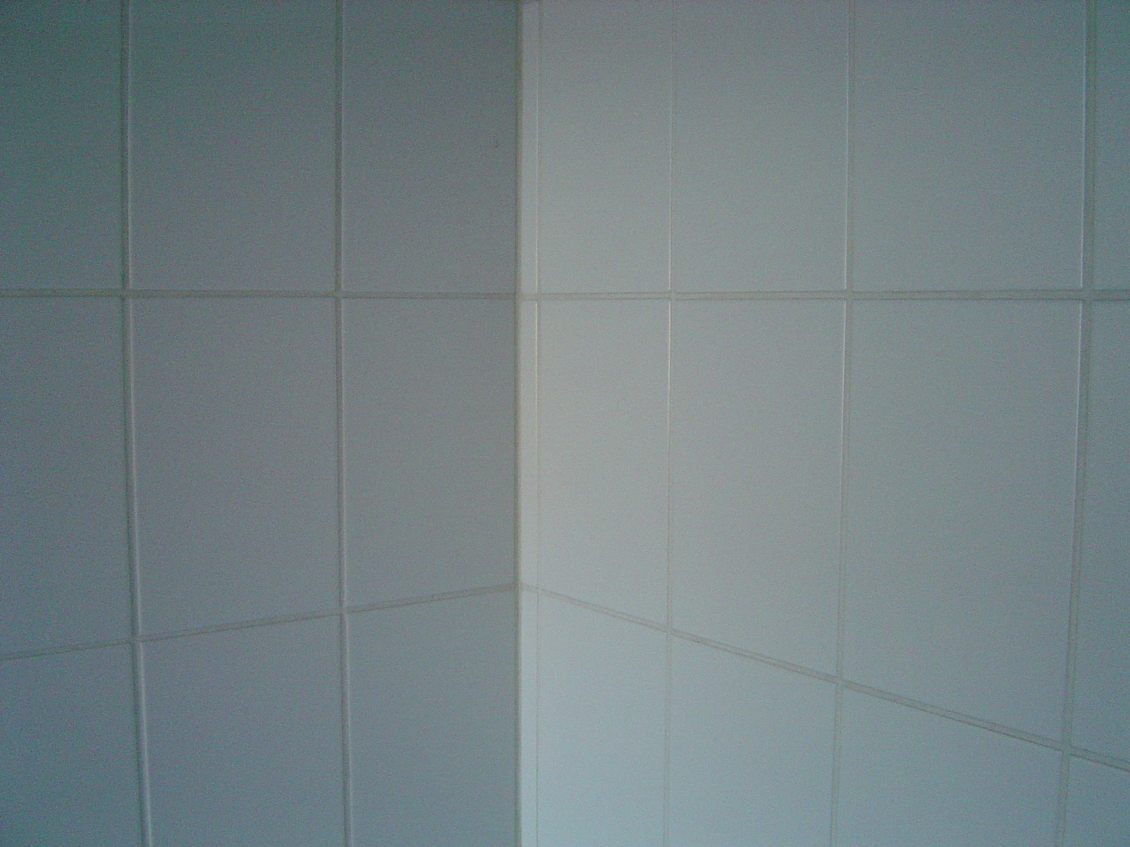 a wall covered with white wall tiles